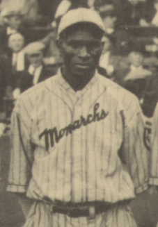 Cliff Bell at the 1924 Colored World Series. LOC states here that there are no restrictions on use of this image, therefore it is PD. This file has been extracted from another file: 1924 Negro League World Series.jpg }